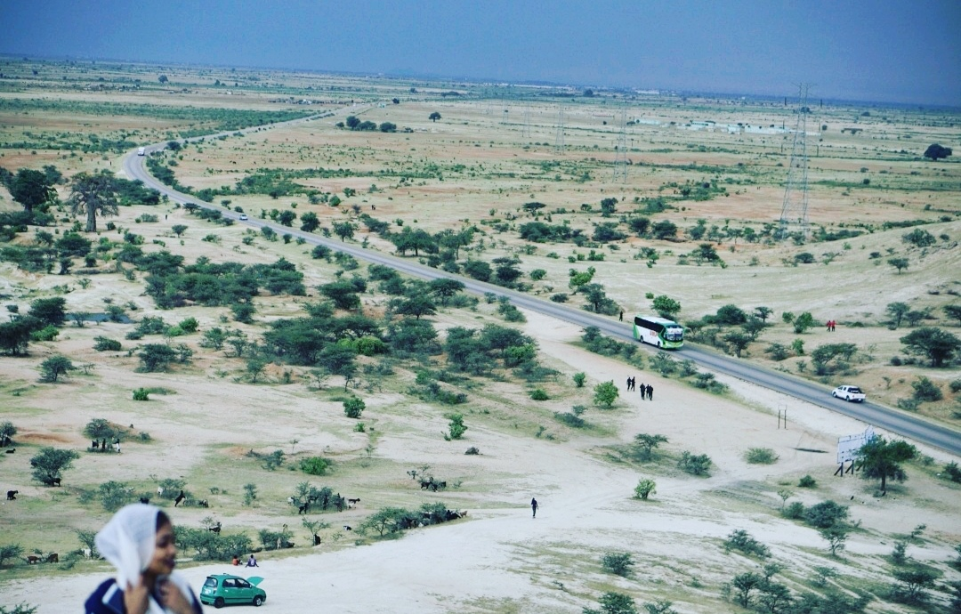 This is an image with the theme "Africa on the Move or Transport" from: Sudan